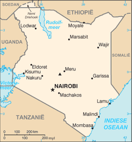 An Afrikaans map of Kenya.